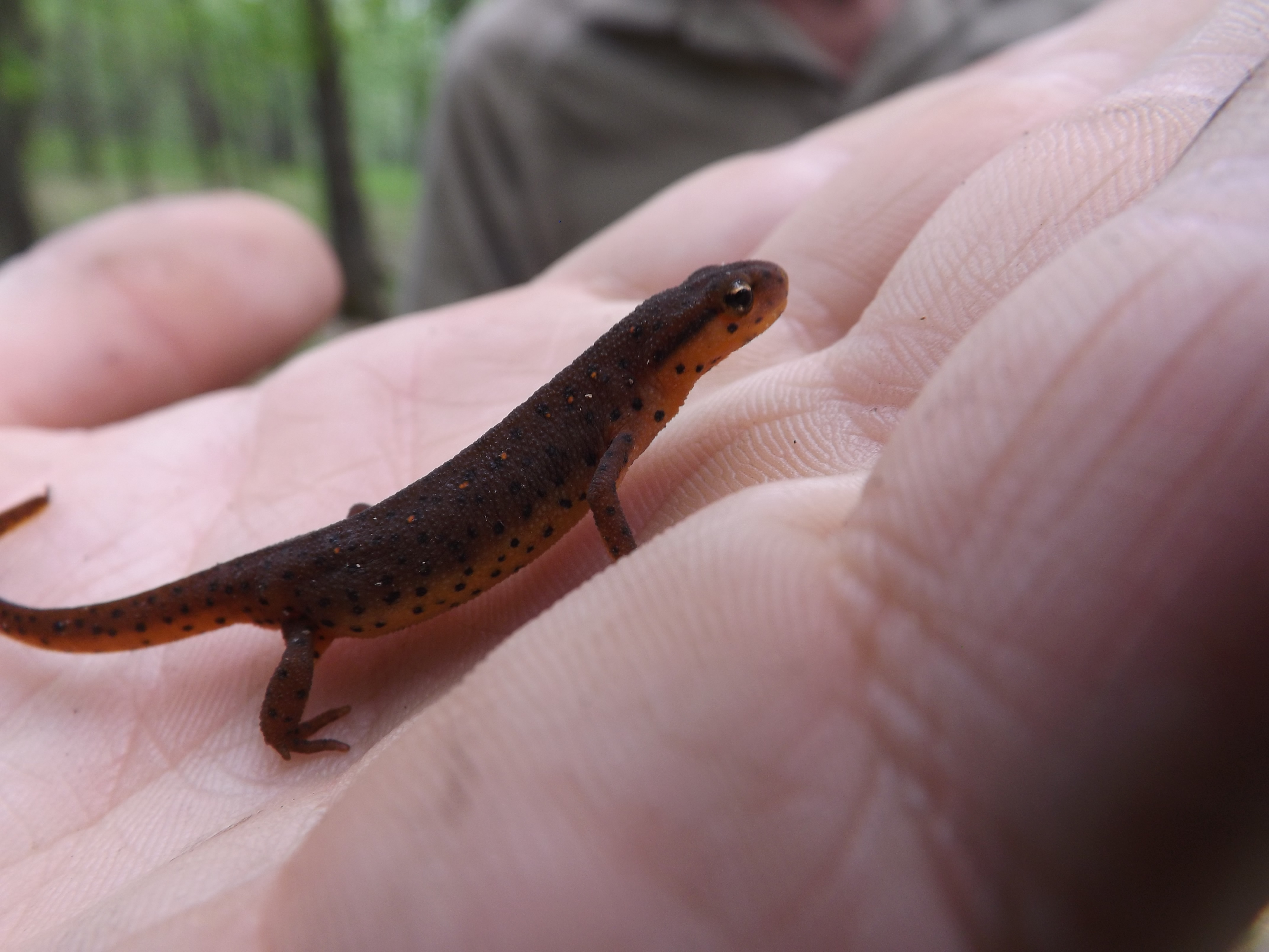 Photo Credit: Amy Coffman / USFWS